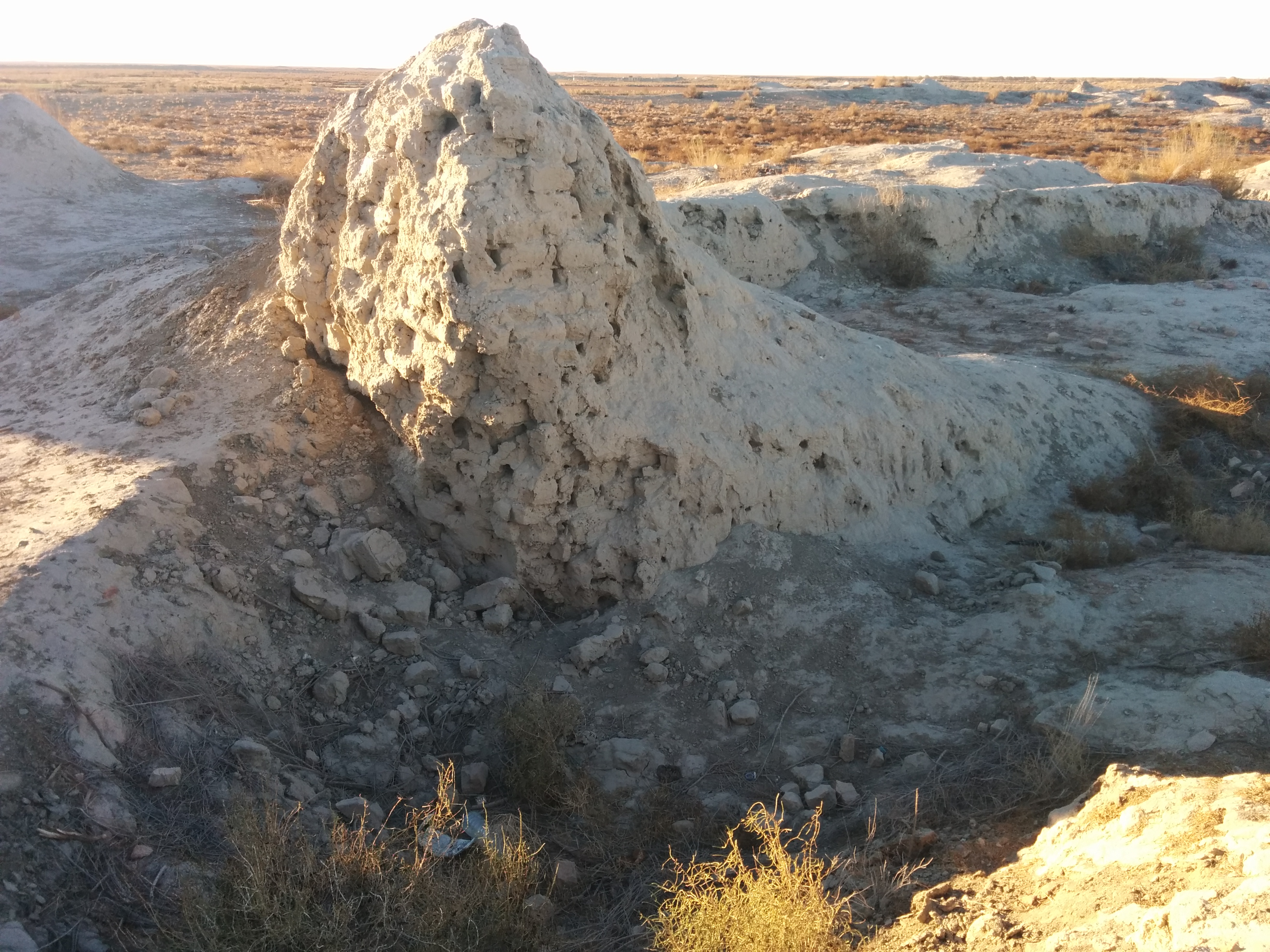 Varakhsha ruins